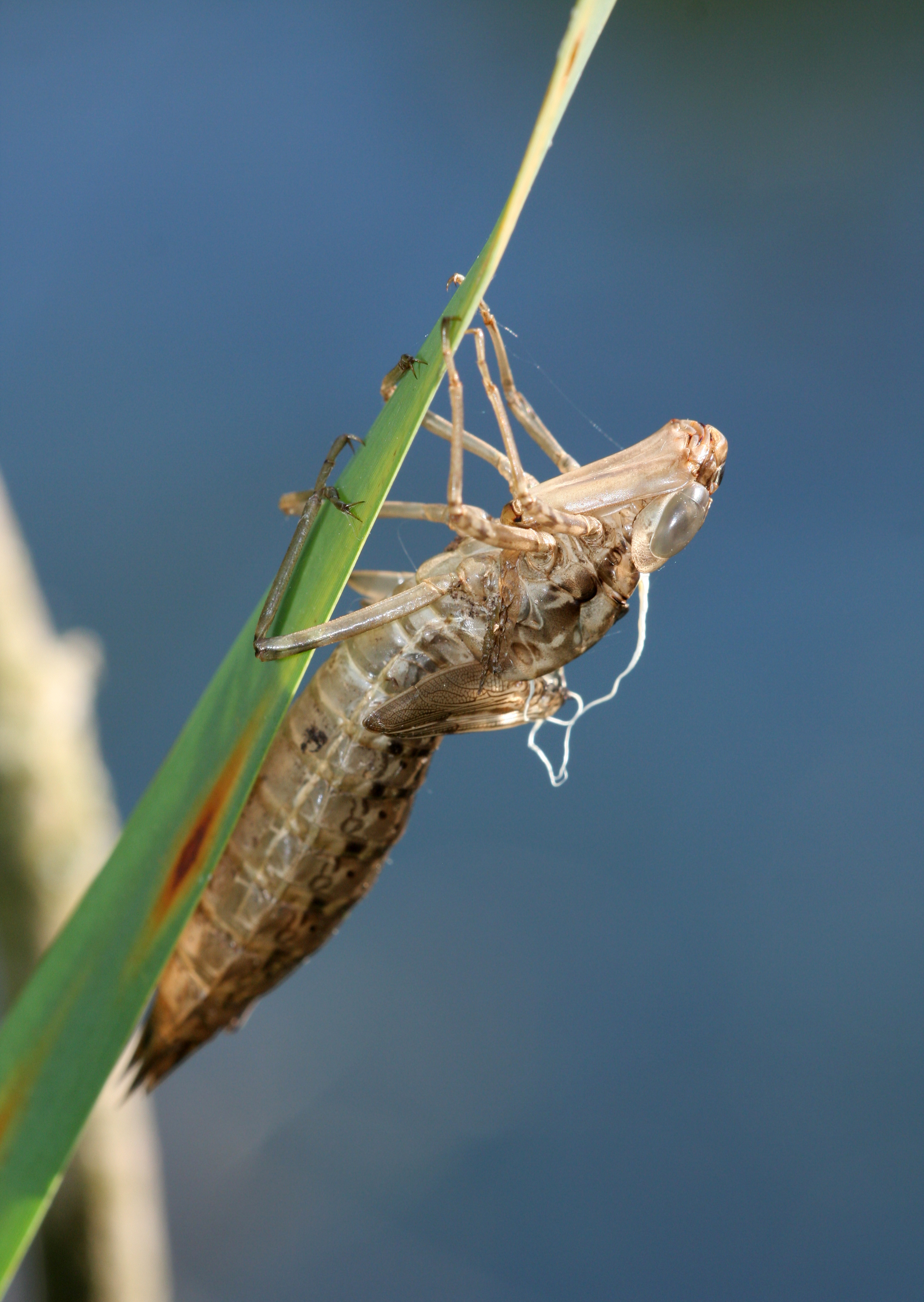 Exuvium of an Emperor dragonfly (Anax imperator). Photo taken at ponds near Vrhnika, Slovenia. Several adults were active in the area at the time and there was another exuvium attached next to this one.